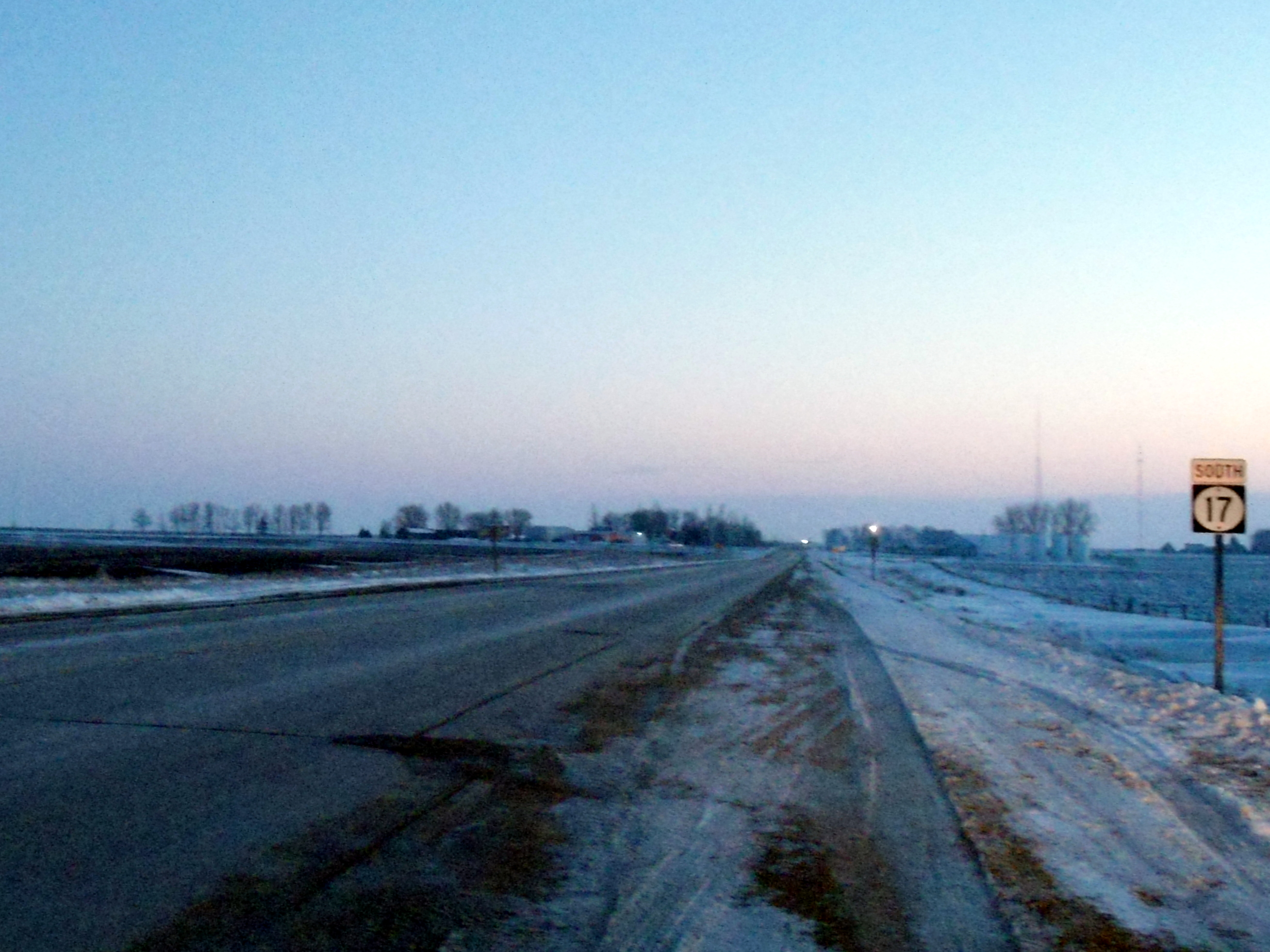 IA 17 near Wesley, IA just south of US 18 junction on Hancock/Kossuth county line